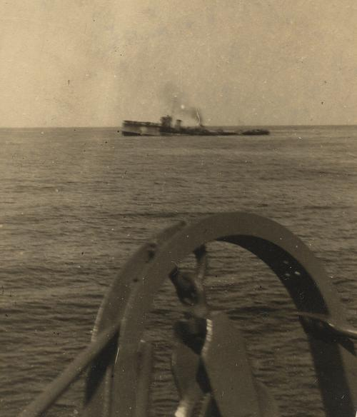 HMS Attack (1911) sinking